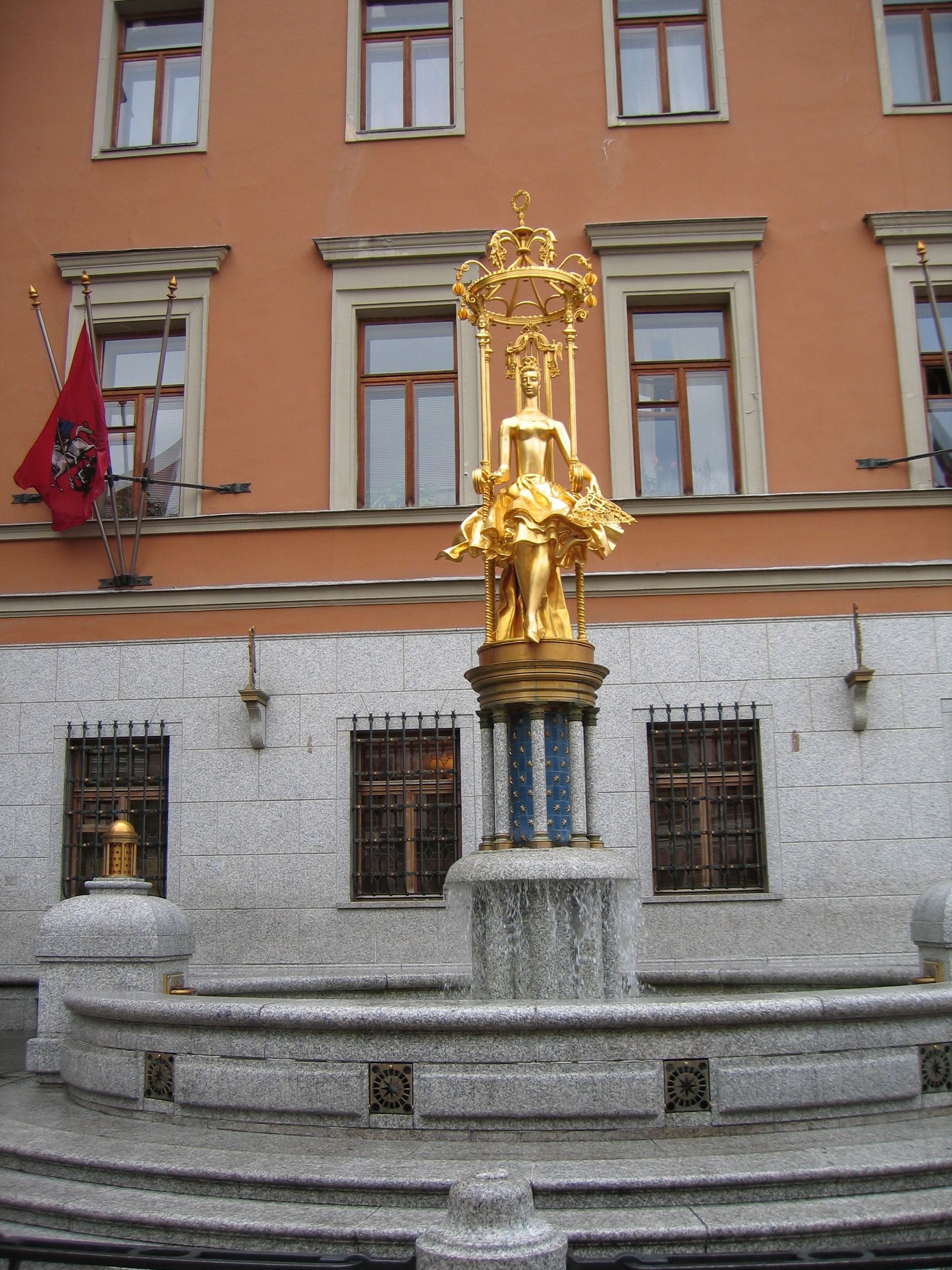 Arbat District, Moscow, Russia